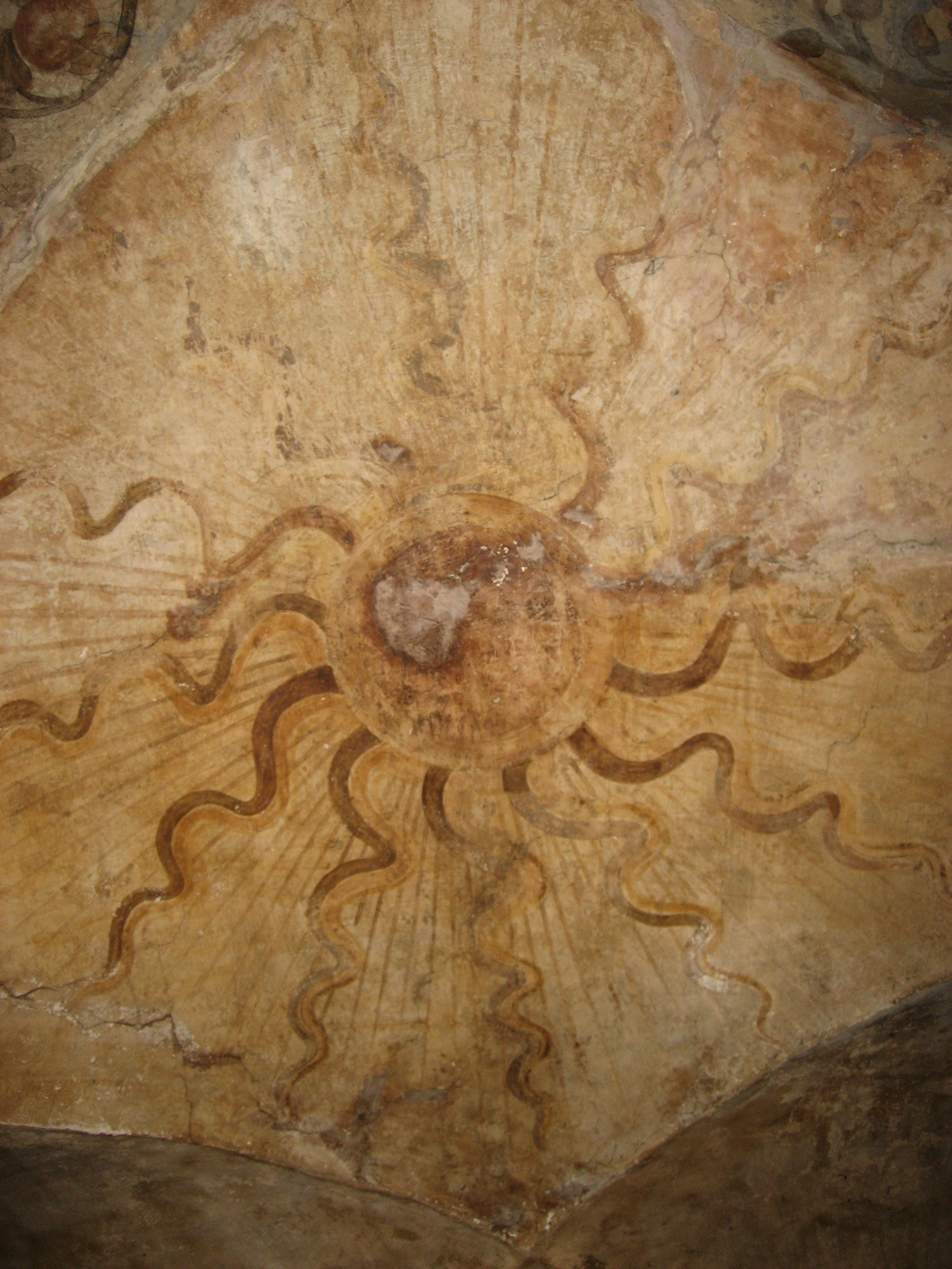 Simbolo cristologico di S. Bernardino nella volta dell'androne d'ingresso del palazzo Tirelli